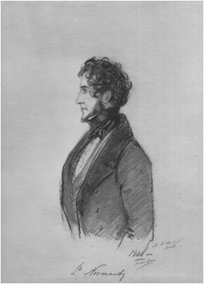 Constantine Phipps, 1st Marquess of Normanby (1797-1863)